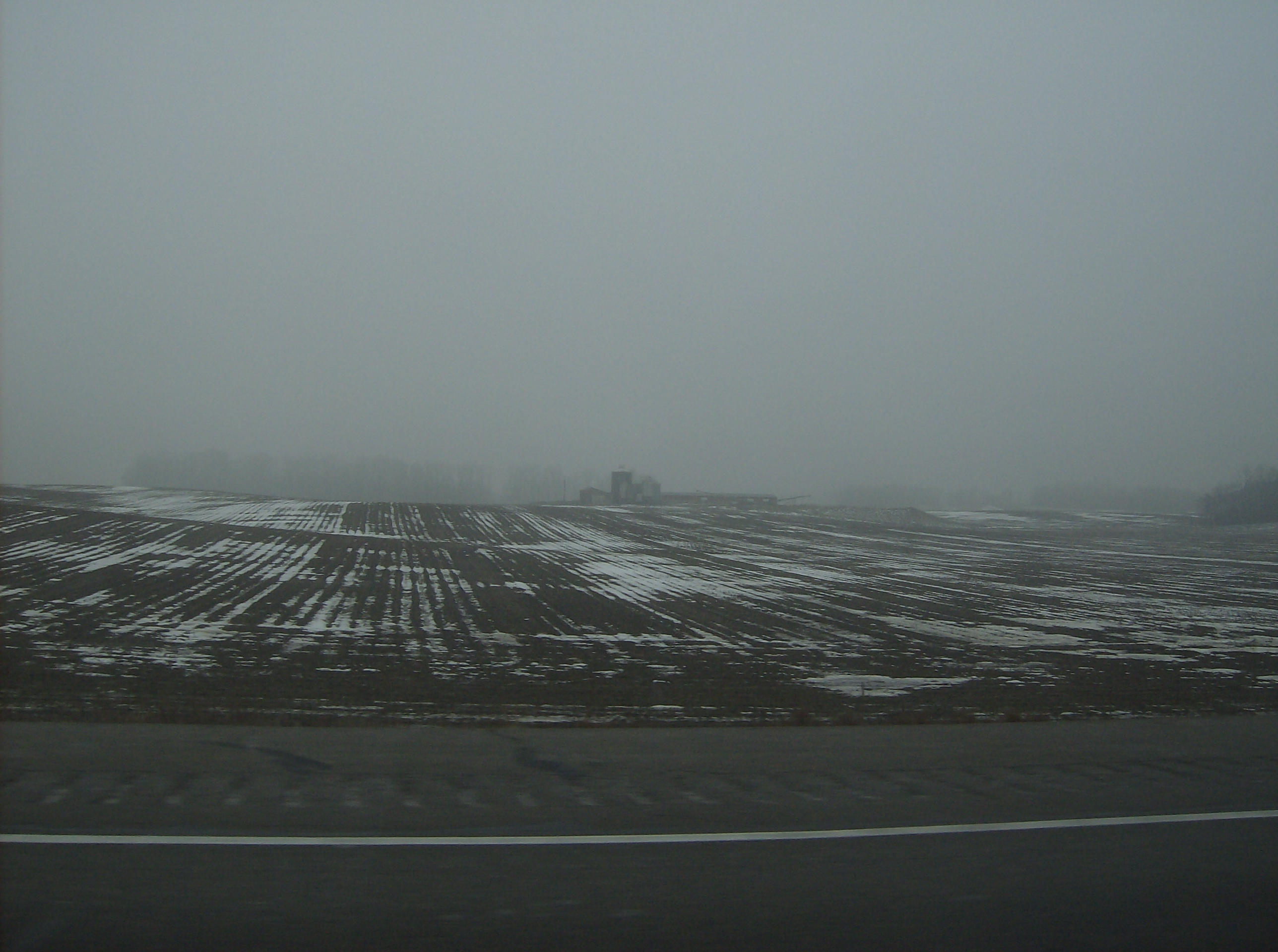 Farm in northeastern Jackson Township, Wayne County, Indiana, United States. Picture taken looking southwest from the eastbound lanes of Interstate 70.